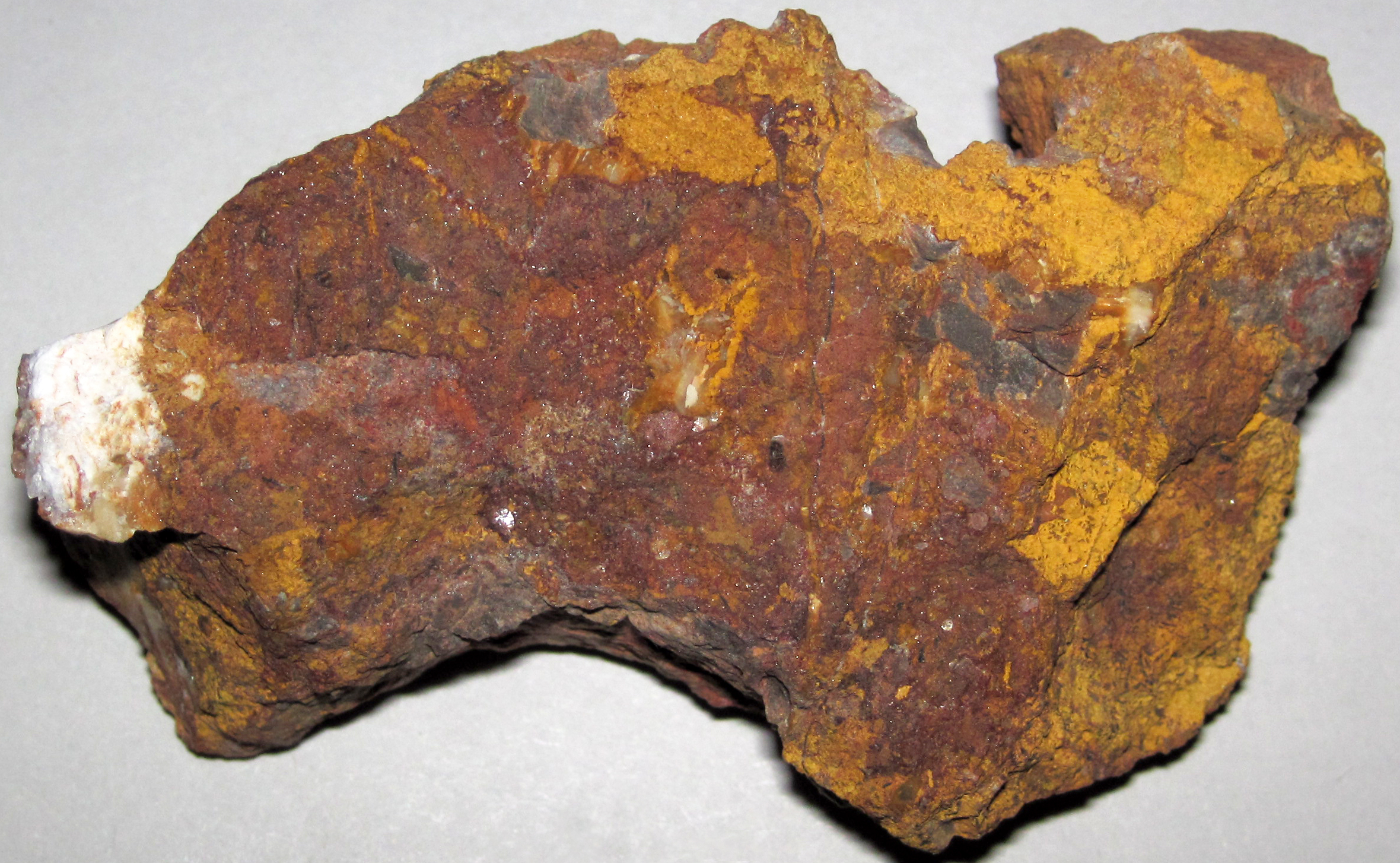 Ferruginous, calcareous, cherty mudrock from the Mississippian of Nevada, USA. Stratigraphy: Indian Springs Formation, upper Chesterian Series, upper Upper Mississippian Locality: southern side of canyon, immediately east of entrance to Arrow Canyon's narrows, south of the Mississippian-Pennsylvanian GSSP cliff, northeastern Arrow Canyon Range, northern Clark County, southeastern Nevada, USA (vicinity of 36° 43' 53.53" North latitude, 114° 46' 51.17" West longitude)